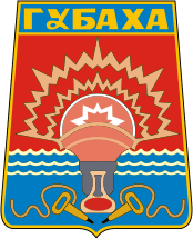 Gubacha (Perm krai), coat of arms (1972)